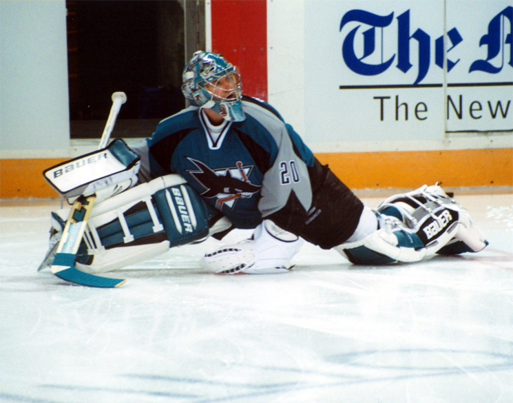 Evgeni Nabokov, ice hockey goaltender of the San Jose Sharks